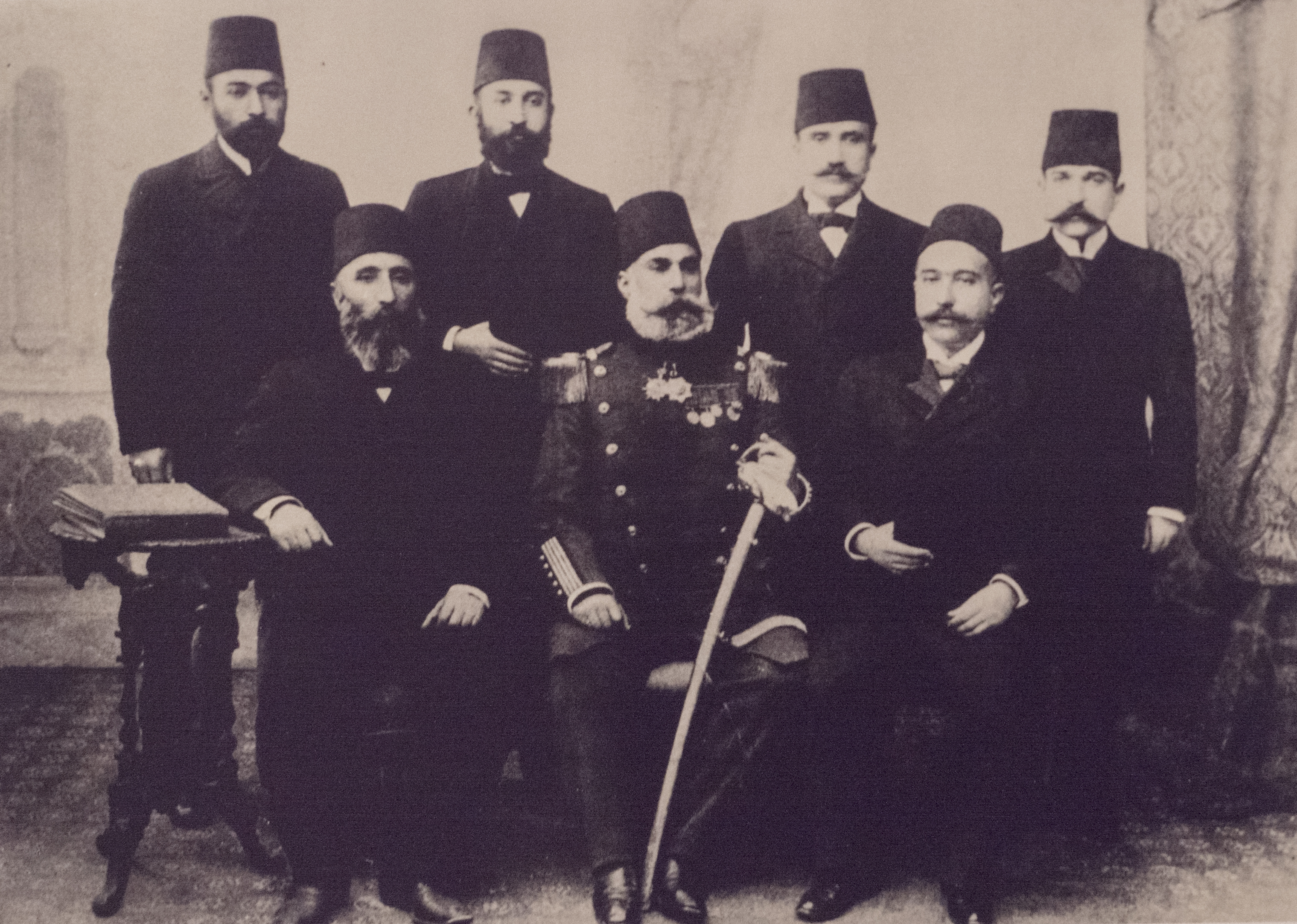 The Bedirkhan family: Emin Ali Bey, Ali Shamil Pasha, Bahri (L-R in front), Murat Ramzi Bey, Hasan, Miqdad Midhat Bey, Kamil (L-R back row).